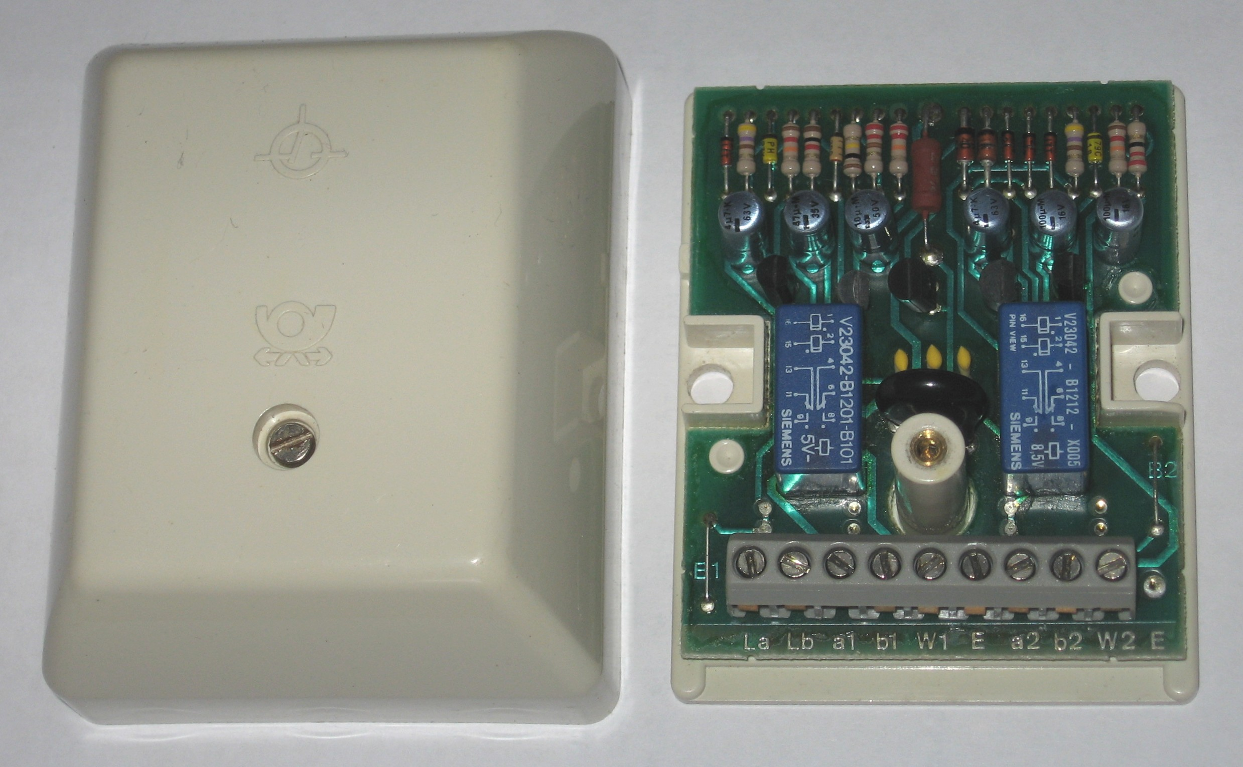 Phone switch AWADo from the German Bundespost (1980s)